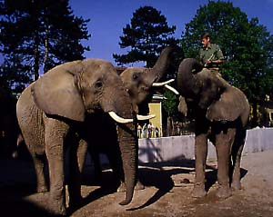 African elephants Jumbo, Drumbo, and Sabi, with elephant trainer Dan Koehl at Tiergarten Schönbrunn 1998